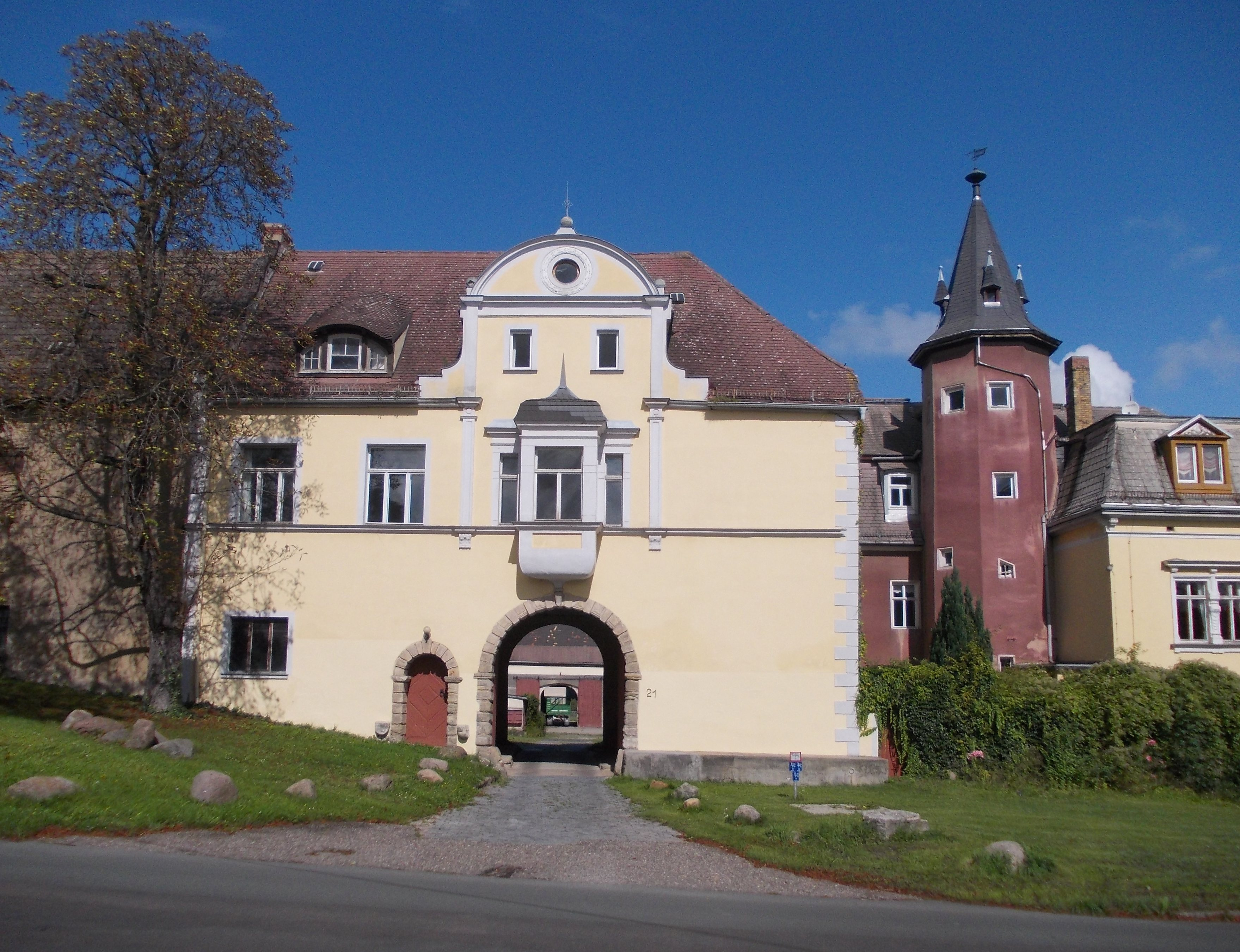 Wengelsdorf estate (Weissenfels, district: Burgenlandkreis, Saxony-Anhalt)